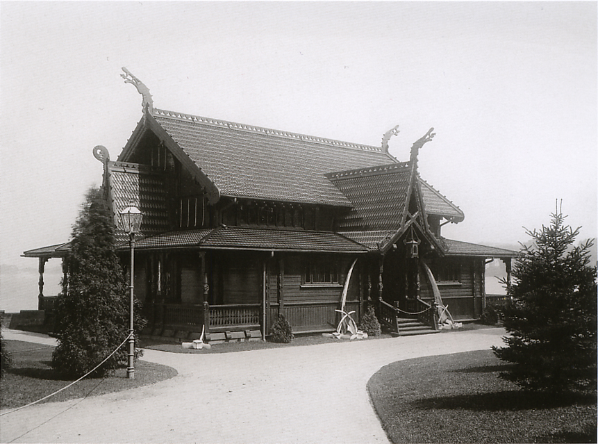 Potsdam, arrival hall of the Imperial Sailor's Station Kongsnæs on the lakefront of the Jungfernsee, photography from 1910.